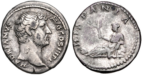 Hadrian. AD 117-138. AR Denarius (16.5mm, 3.49 g, 6h). “Travel series” issue. Rome mint. Struck circa AD 134-138. Bare head right / HISPANIA, Hispania reclining left, holding olive branch and resting arm on rock; rabbit at feet to left. RIC II 305; RSC 822. VF, toned, a couple contact marks on obverse.